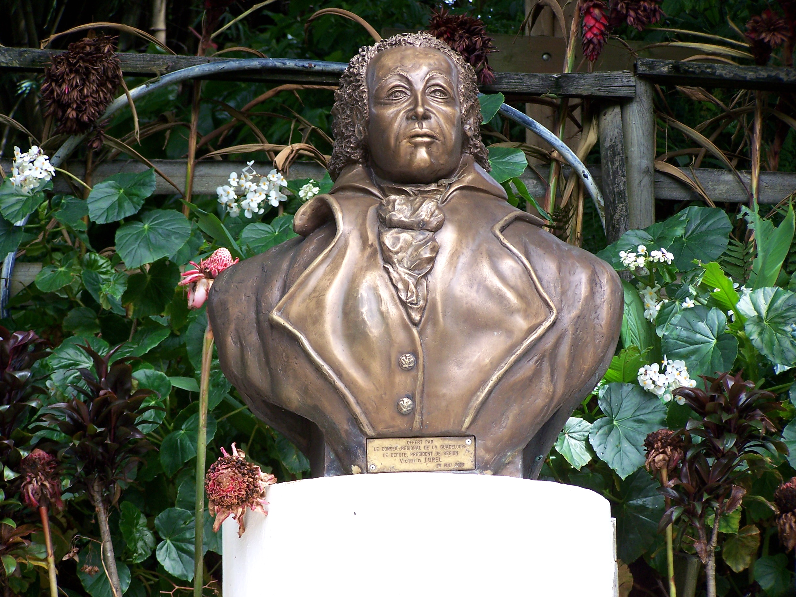 Buste du monument à Louis Delgrès sur le site de sa mort à Matouba, commune de Saint-Claude, Guadeloupe